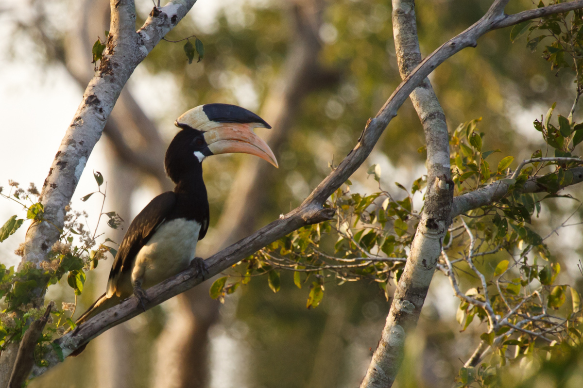 A Malabar Pied Hornbill at Wilpattu National Park, Sri Lanka.